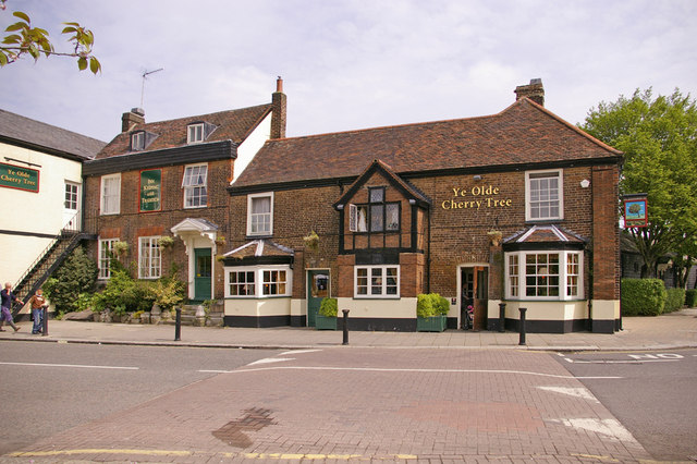 Ye Olde Cherry Tree, The Green, Southgate, London N14 Situated on the corner of The Mall, Ye Olde Cherry Tree is a restaurant and public house, with a travel inn hotel at the back.